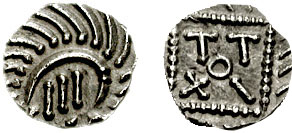 Anglo-Saxons, Sceattas. Lower Rhine or Frisia. Circa 710/5-735 AD. AR Sceatta (1.02 g, 12h). Series E, variety A. "Porcupine" right "Standard" with T O T X \ ; surrounded by rays. Cf. Metcalf Series E, 225-229; North 48; SCBC 790. EF, attractively toned.